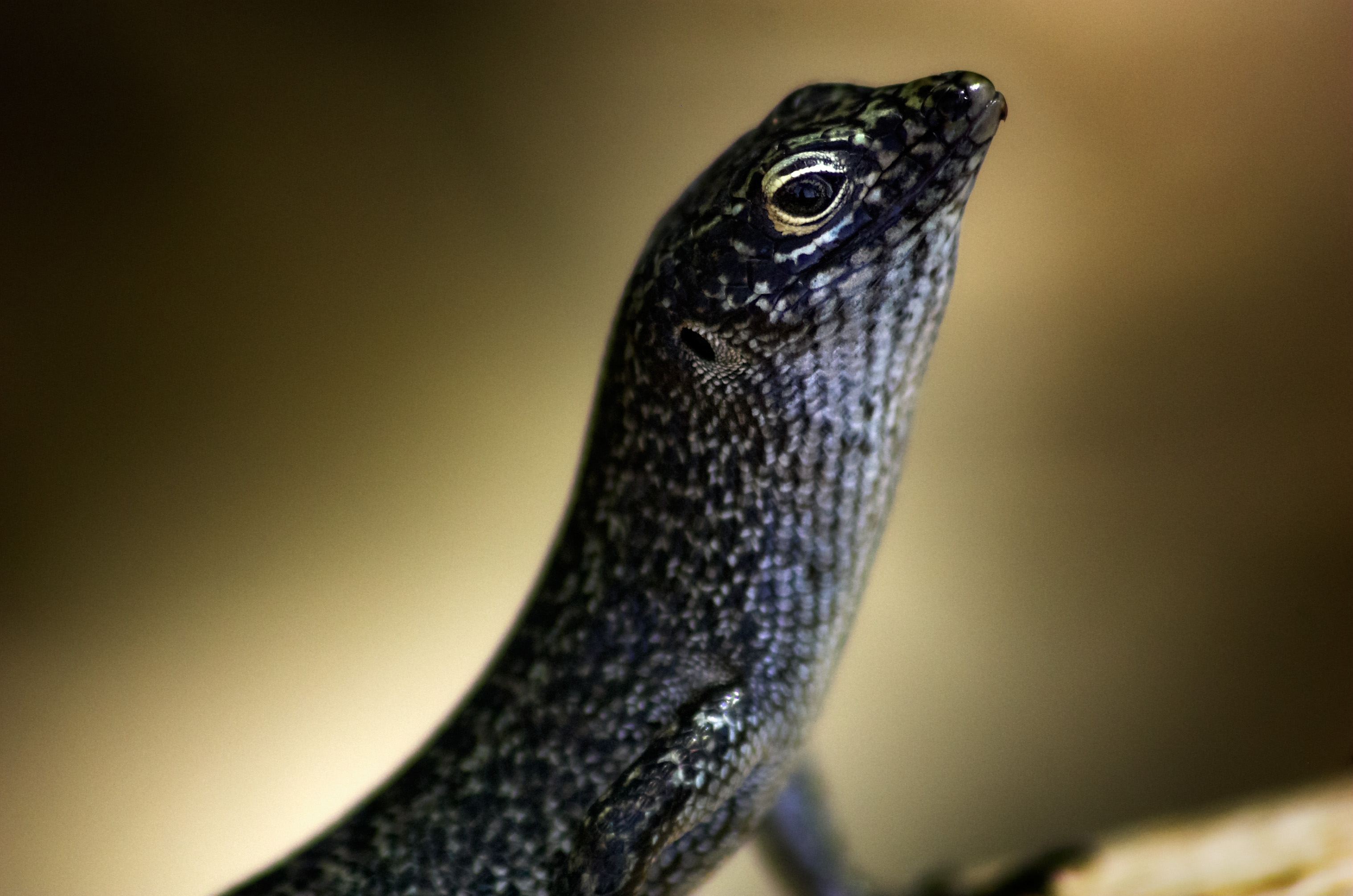 Head of a Noronha skink (Trachylepis atlantica) on Fernando de Noronha island, Brazil. Original description: "A mabuia é um réptil simpático, curioso e aparentemente sempre faminto, endêmico à ilha de Fernando de Noronha. Para quem gostou do bichinho, há outra aqui fotografada durante nossa visita anterior à ilha. The Noronha skink is a cute little reptile. They're endemic to the island of Fernando de Noronha, are extremely curious and apparently insatiably hungry. If you liked this one, there's another shot from our previous visit to the island here. "